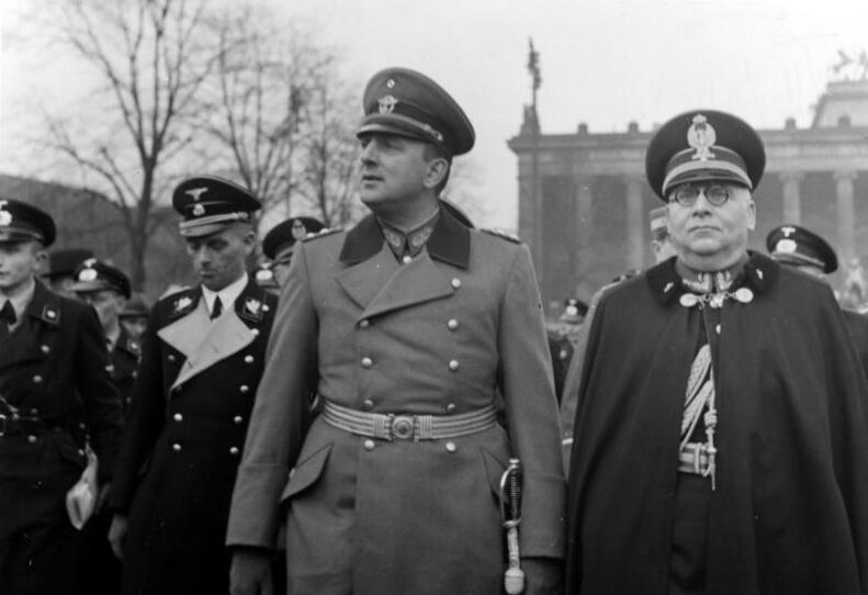 Information added by Wikimedia users.*